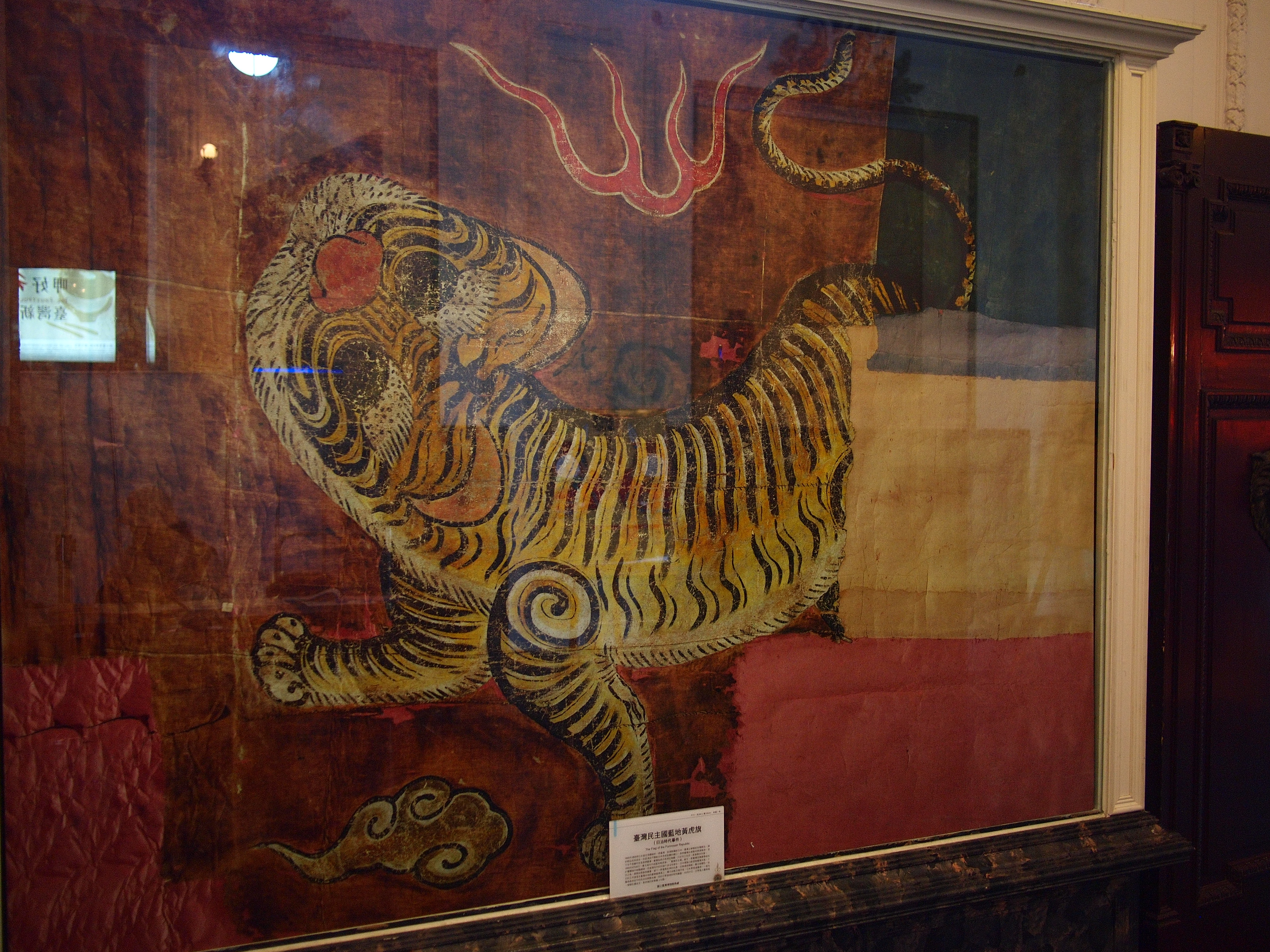 Replica of the National Flag of the Republic of Formosa in the National Taiwan Museum.